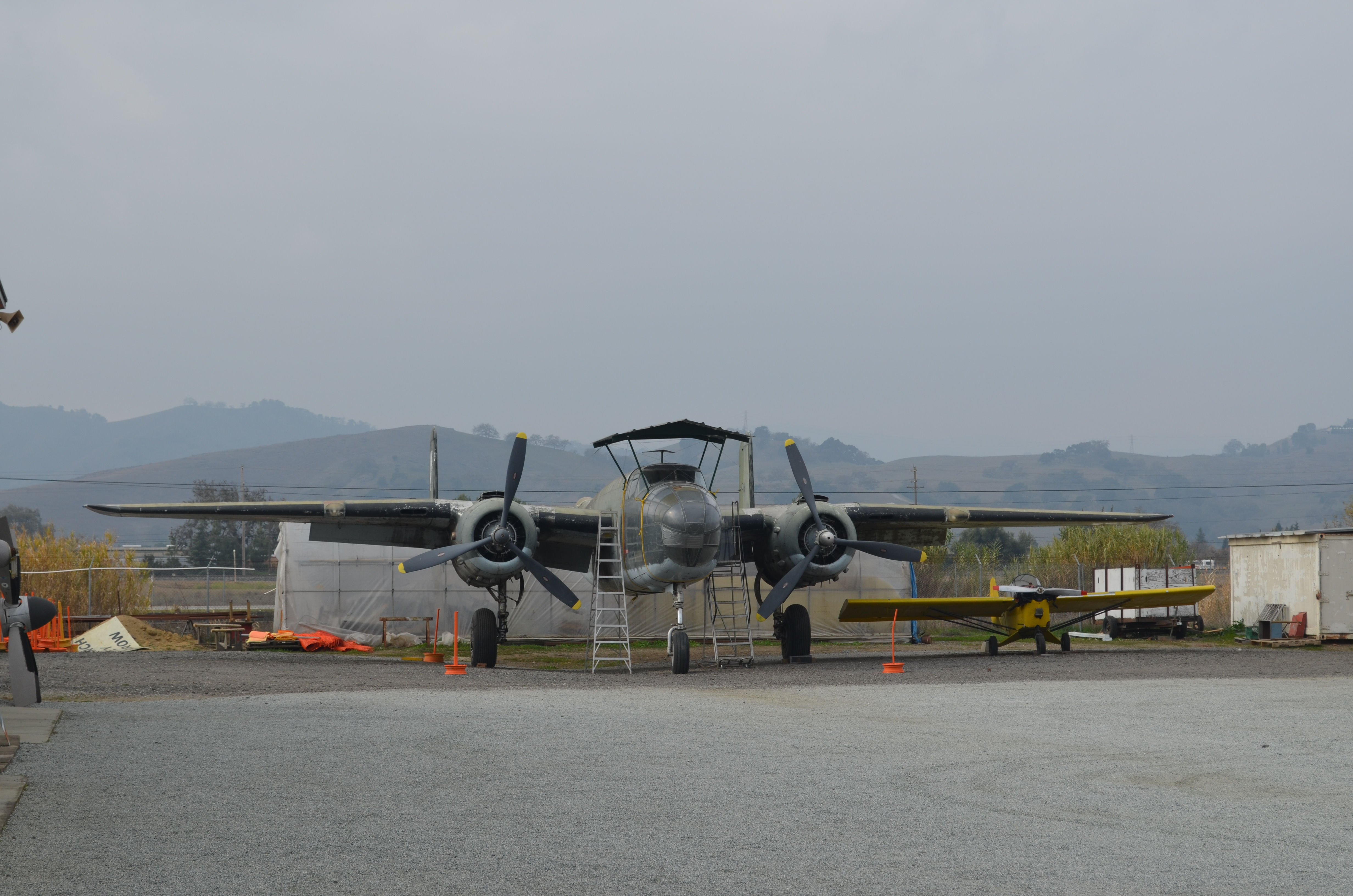 B-25 from far away